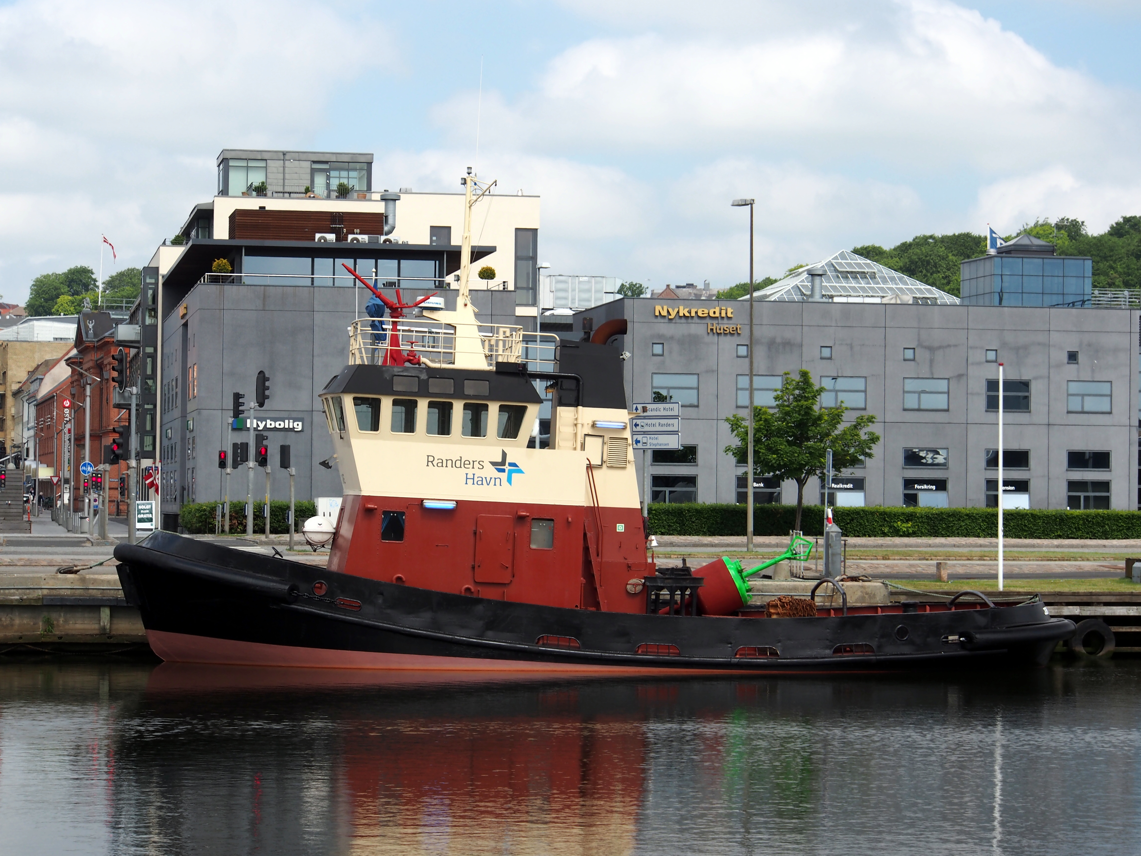 Photographed at Randers harbour, Denmark.